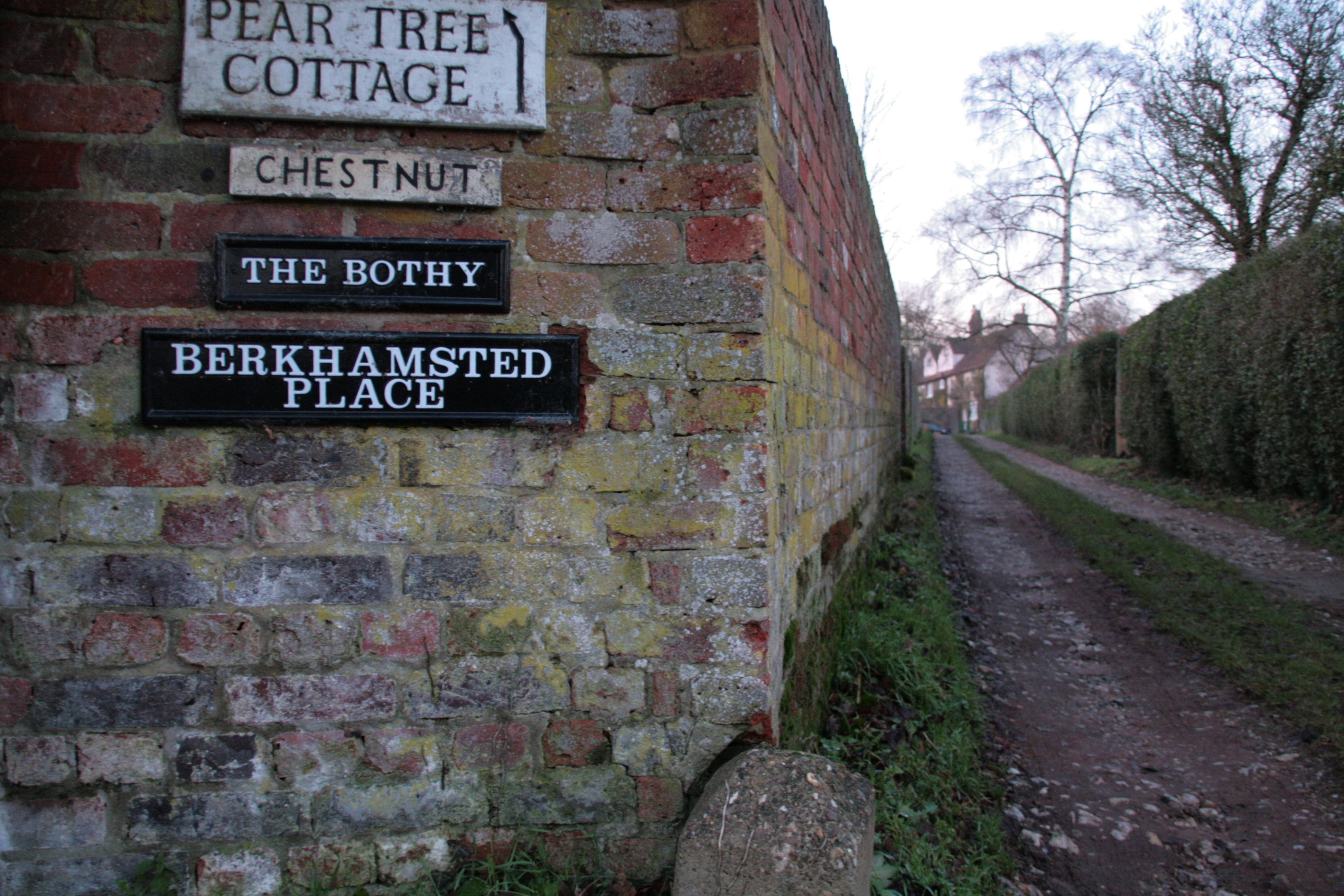 The entrance to the drive of the former Elizabethan mansion, Berkhamsted Place. Now demolished, the site is occupied by a number of private cottages and a farm. Berkhamsted, Hertfordshire, UK.